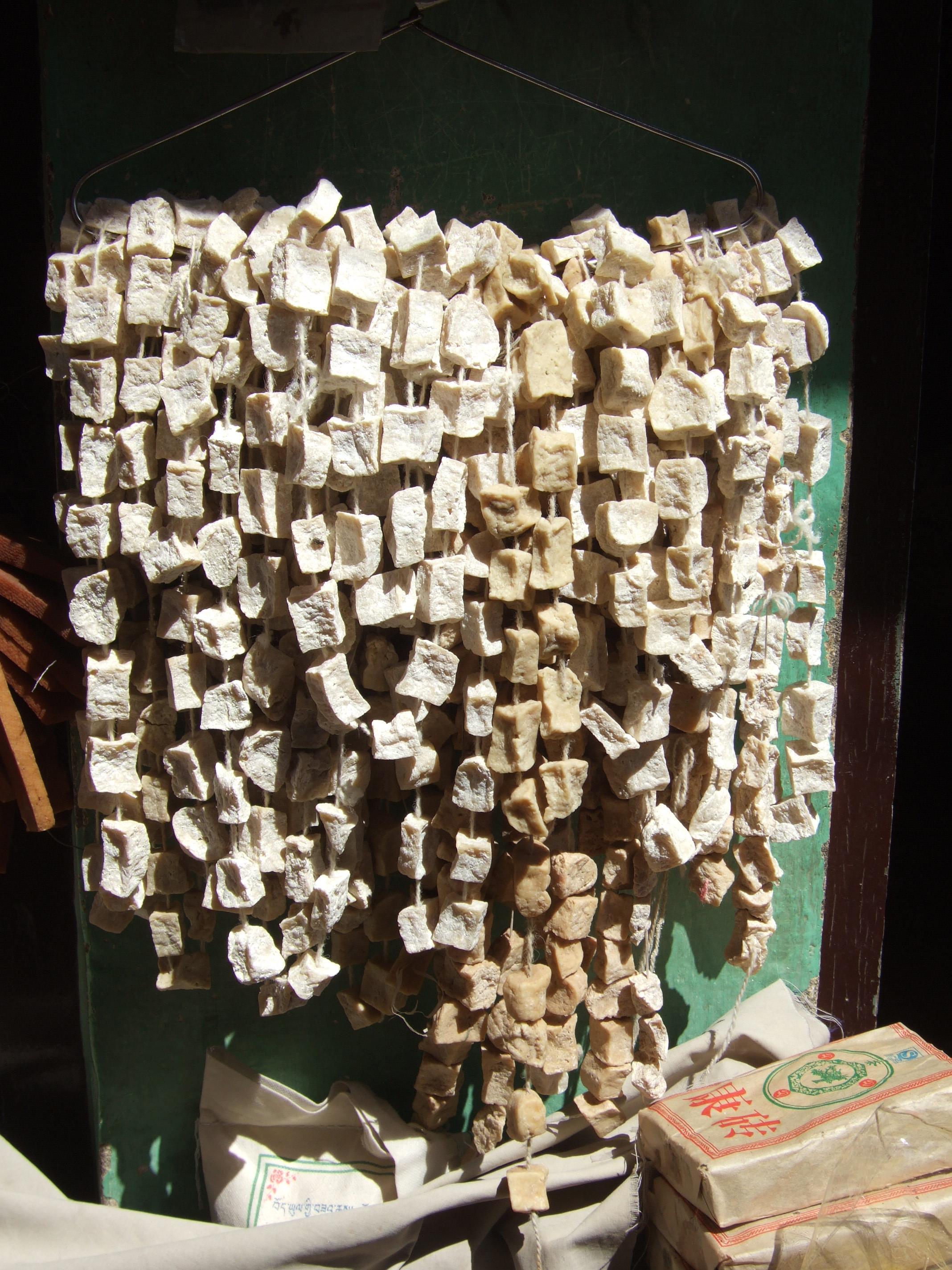 Tibetan hard cheese photographed in Bodhnat (Nepal)